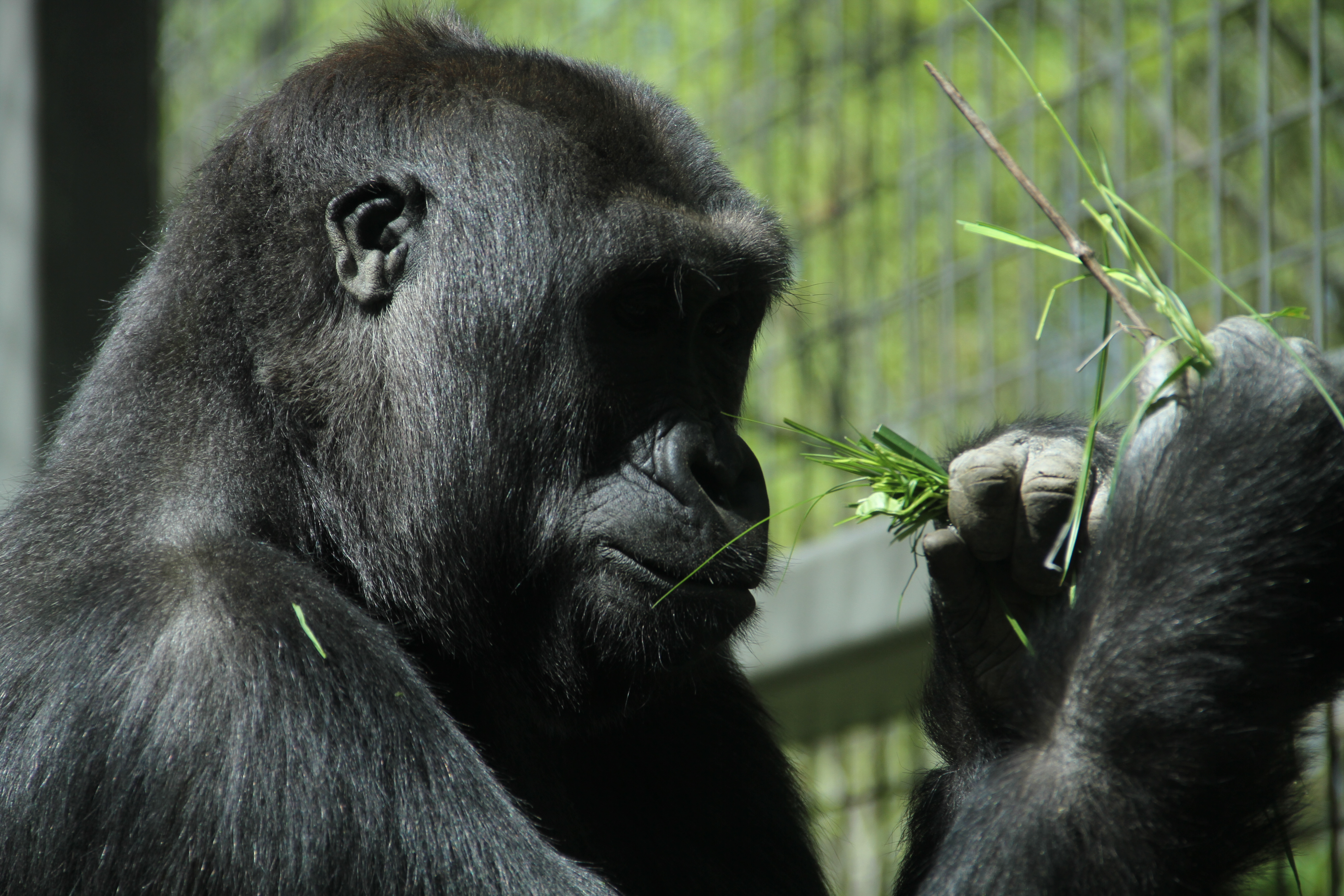 Gorilla enclosure at Columbus Zoo and Aquarium